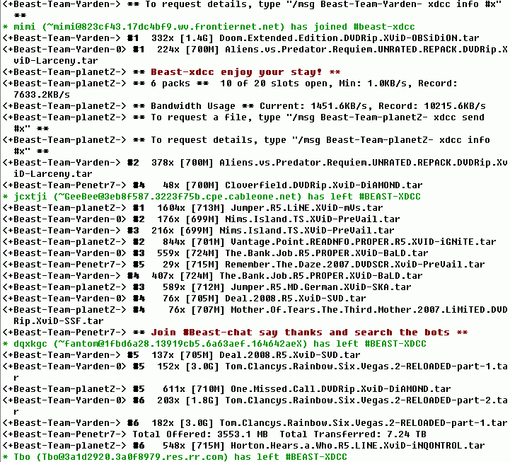 An XDCC packlist